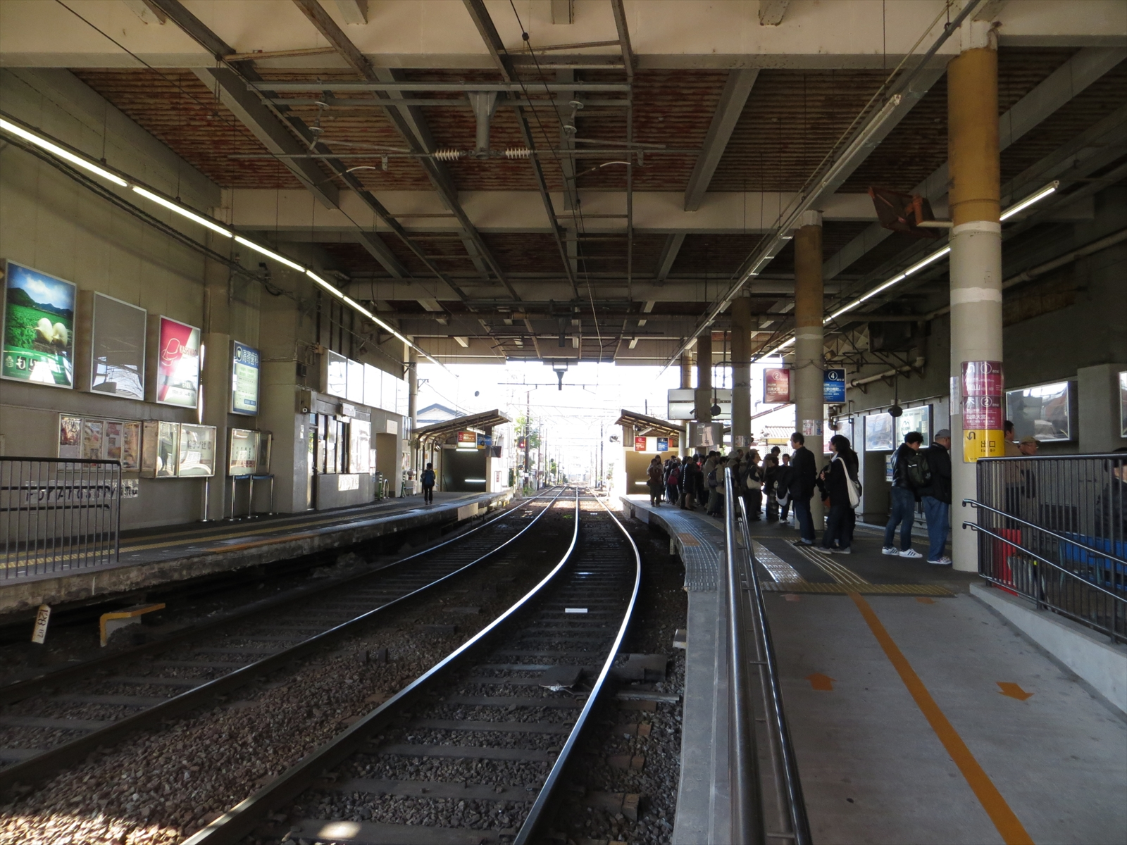 Platform of Karabiranotsuji Station (Randen Arashiyama Main Line).